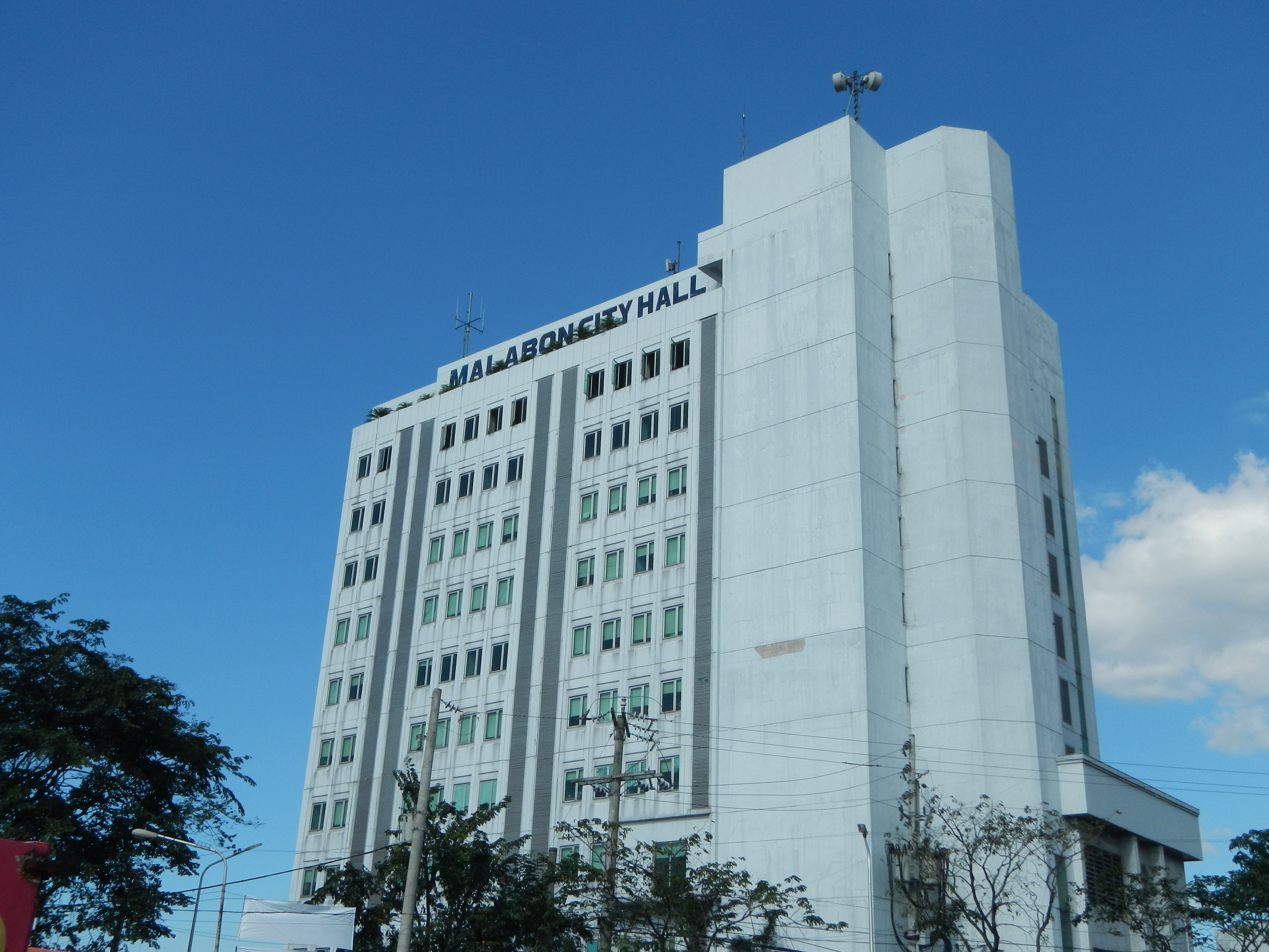 Upload Wizard photos of -- (general description of landmarks, town, church) - the City of Malabon [1] [2] -- a) the Heritage San Bartolome Parish Church of Malabon [3] the massive façade has Ionic columns inspired by Greco-Roman temple with splendid dome's ceiling dotted with paintings of Saints and biblical scenes; it is currently under renovation in preparation for its 400 years anniversary on May 17, 1514-2014[4] Rizal Ave. Ext., Barangay San Agustin City Government of Malabon declared under Resolution No. 118-2008 the Church of San Bartolome as the First Cityt Landmark Coordinates: 14°39'31"N 120°57'5"E - beside the St. James Academy (Malabon)[5] - City Proper in Barangay San Agustin - towards the very near and visible Malabon City Hall very near the Savemore Supermarkt, San Roque Supermarket, the Malabon Central Market, City Proper.